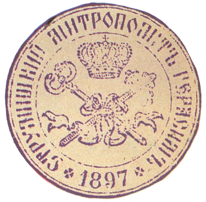 Seal of the Bulgarian bishop of Strumica Gerasim. Inscription: Струмишкий митрополитъ Герасимъ 1897.